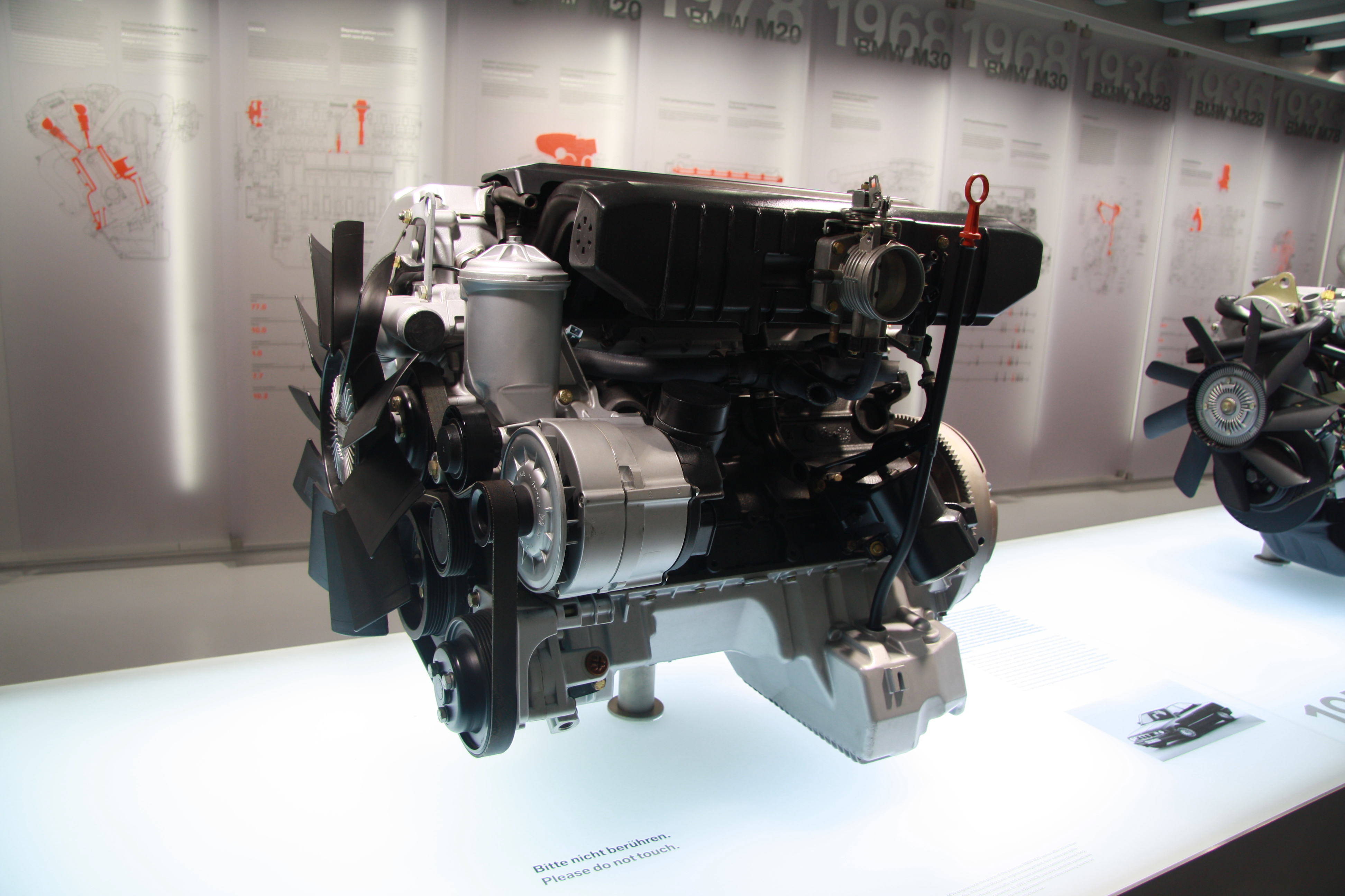 BMW M50 engine in BMW-Museum in Munich, Bayern.